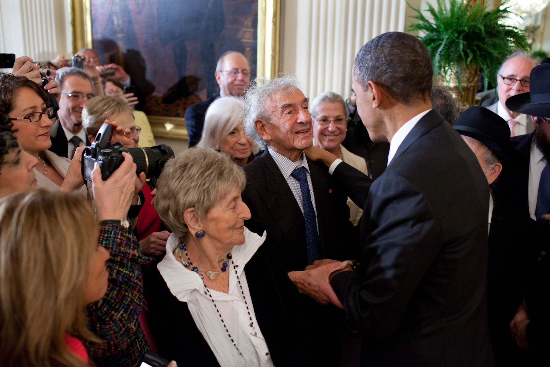 Photo of President Obama welcoming Nobel Peace Prize Laureate Elie Wiesel at the 2011 White House reception in honor of Jewish American Heritage Month.